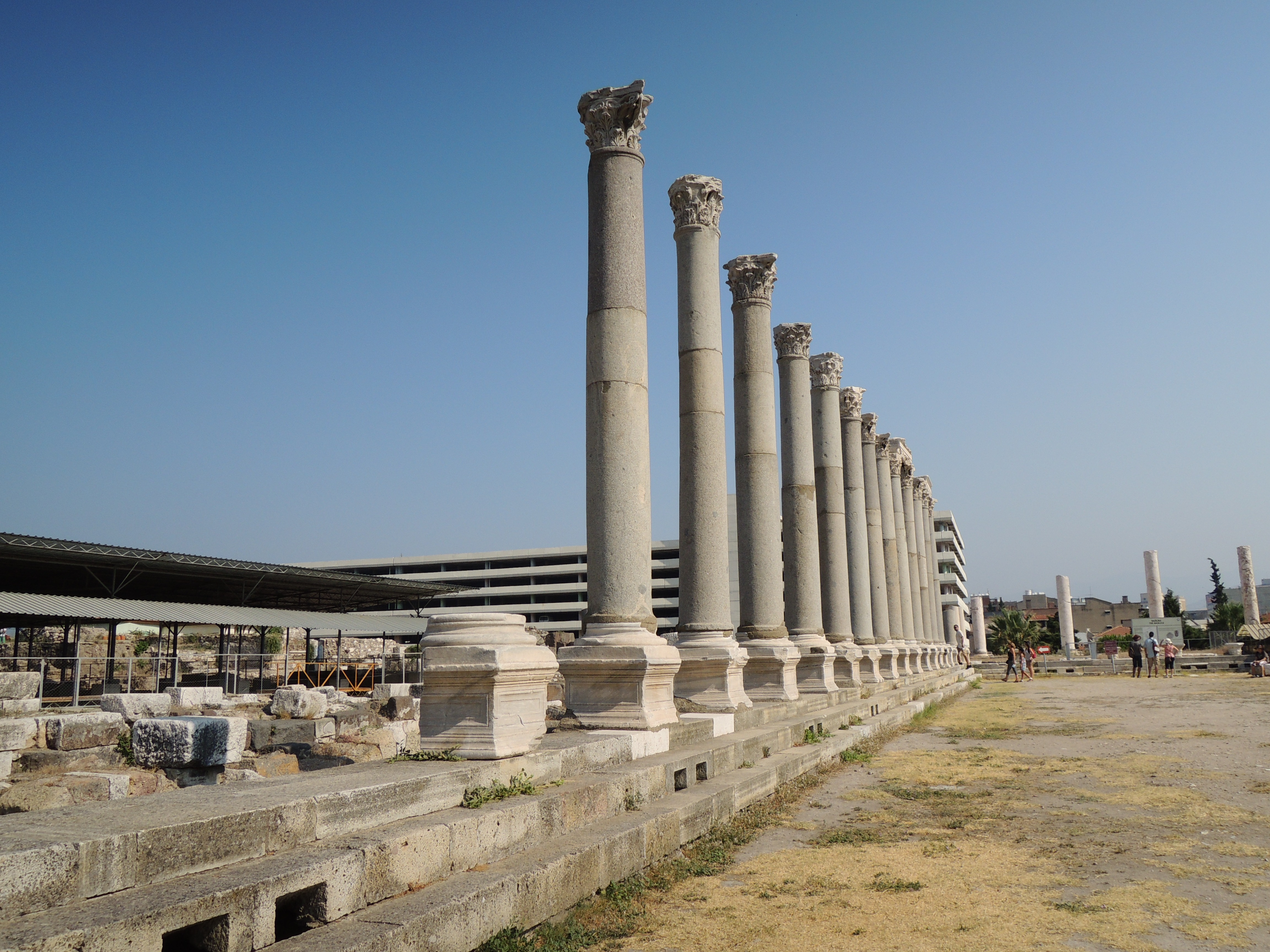 Agora of İzmir in Turkey.